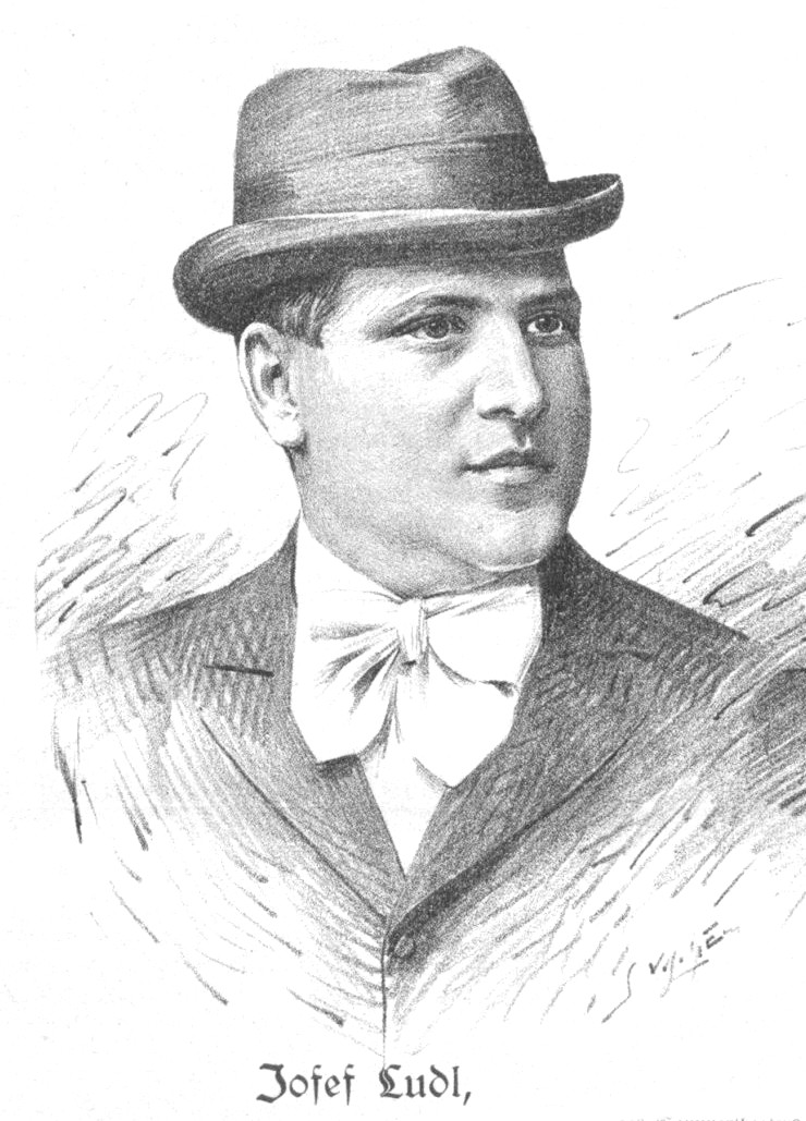 Portrait of Josef Ludl (1868-1917), Austrian and German actor